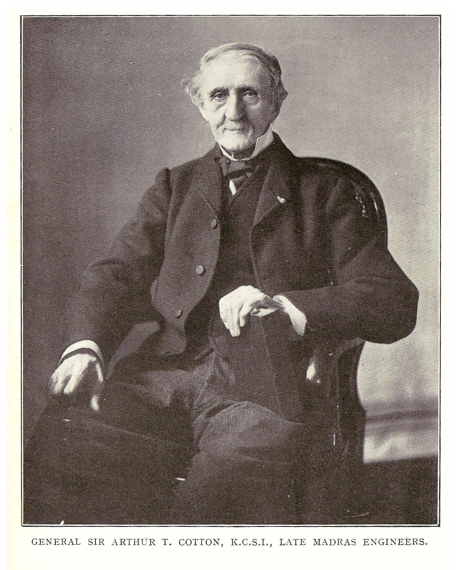 Sir Arthur Thomas Cotton KCSI (15 May 1803 – 24 July 1899)